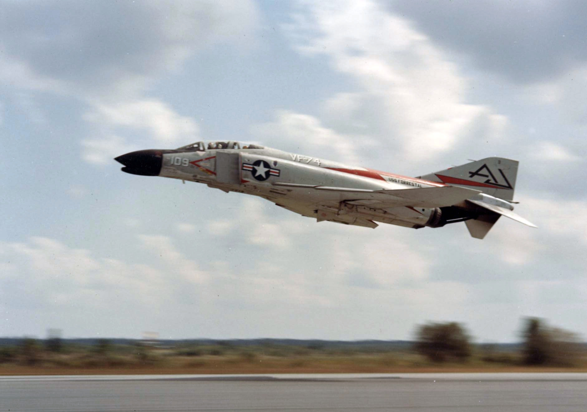 A U.S. Navy McDonnell F4H-1 Phantom II of Fighter Squadron VF-74 Be-Devilers assigned to Carrier Air Group 8 (CVG-8) aboard the aircraft carrier USS Forrestal (CVA-59) pictured taking off from an unidentified airfield. On 8 July 1961, VF-74 began transitioning into the airplane, thus becoming the first deployable Phantom squadron in the U.S. Navy.